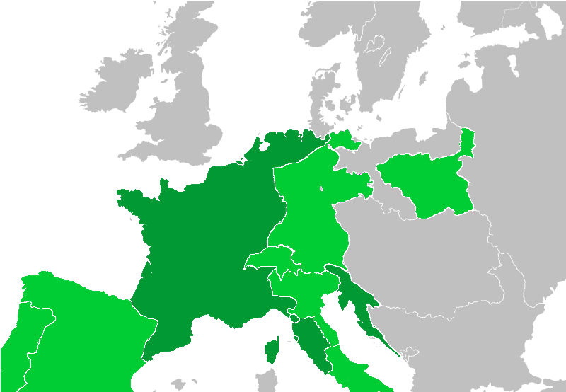 Map of First French Empire (1804-1815) under Napoleon 1er The First French Empire Vassals States of French Empire